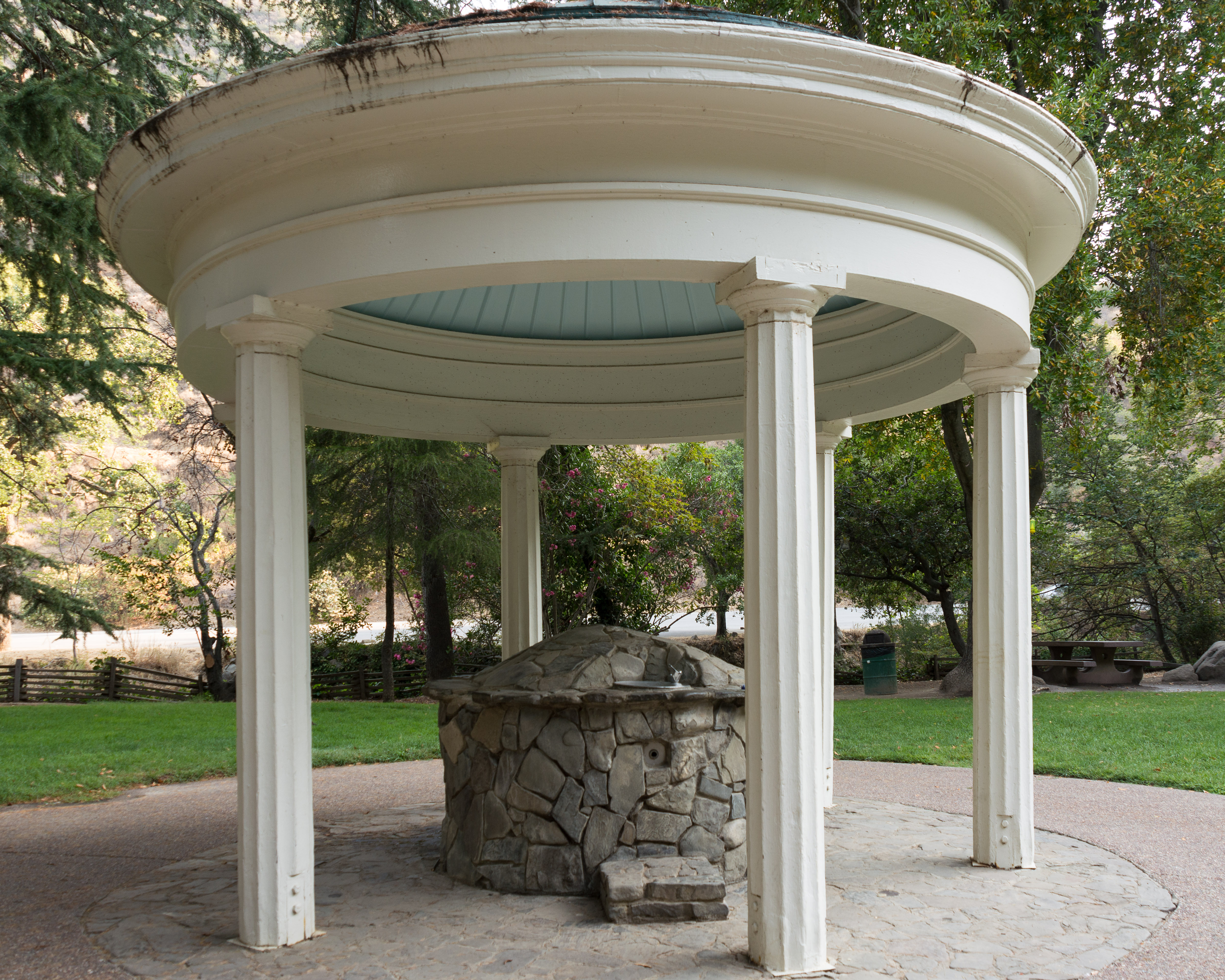 Alum Rock Fountain